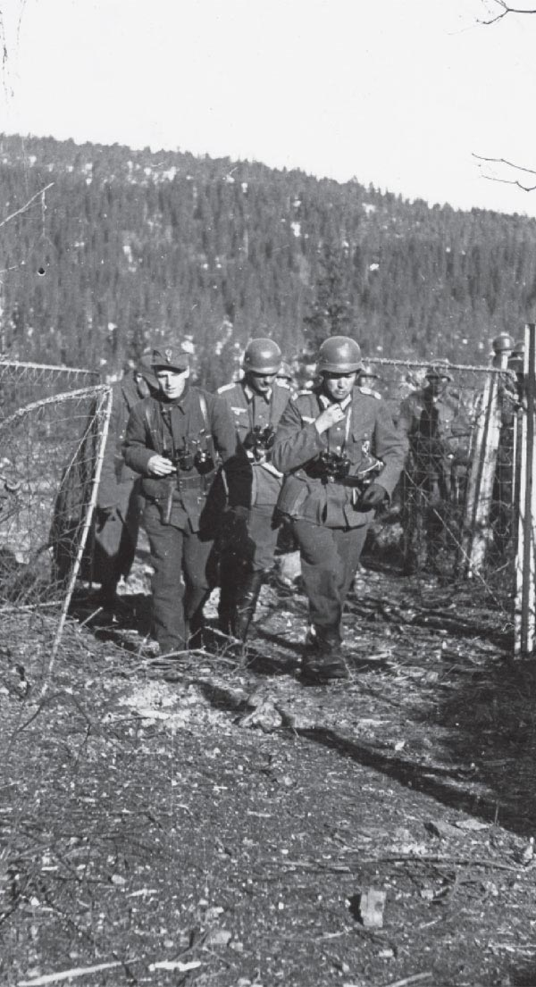 The German Hauptmann Giebel arrives at Hegra Fortress to accept the Norwegian garrison's surrender on 5 May 1940.